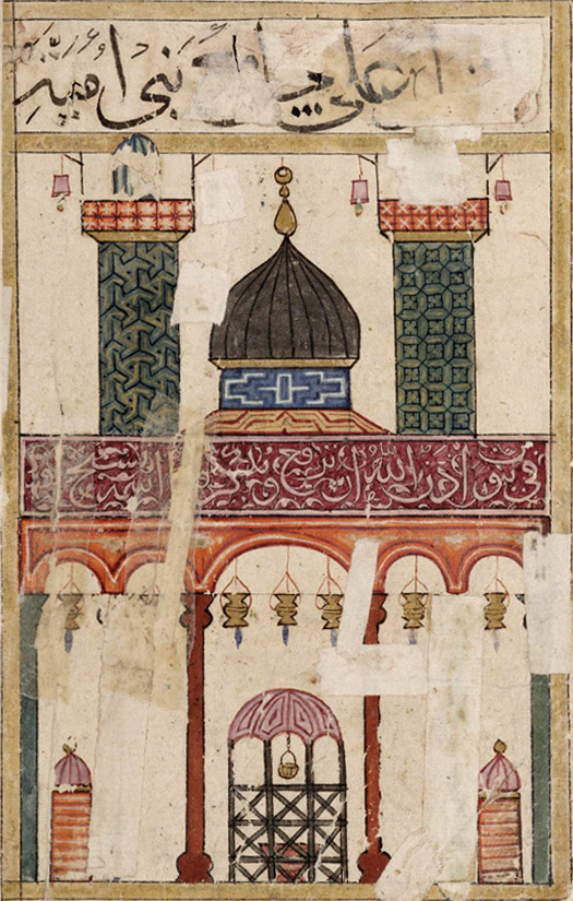 Rectified/ cropped/ contrast-corrected version of File:Book_of_Wonders_folio_36b.jpg The Umayyad mosque at Damascus. Illustration of a tale. Page from a manuscript known as Kitab al-bulhan or "Book of Wonders" held at the Bodelian Library. Shelfmark: MS. Bodl. Or. 133